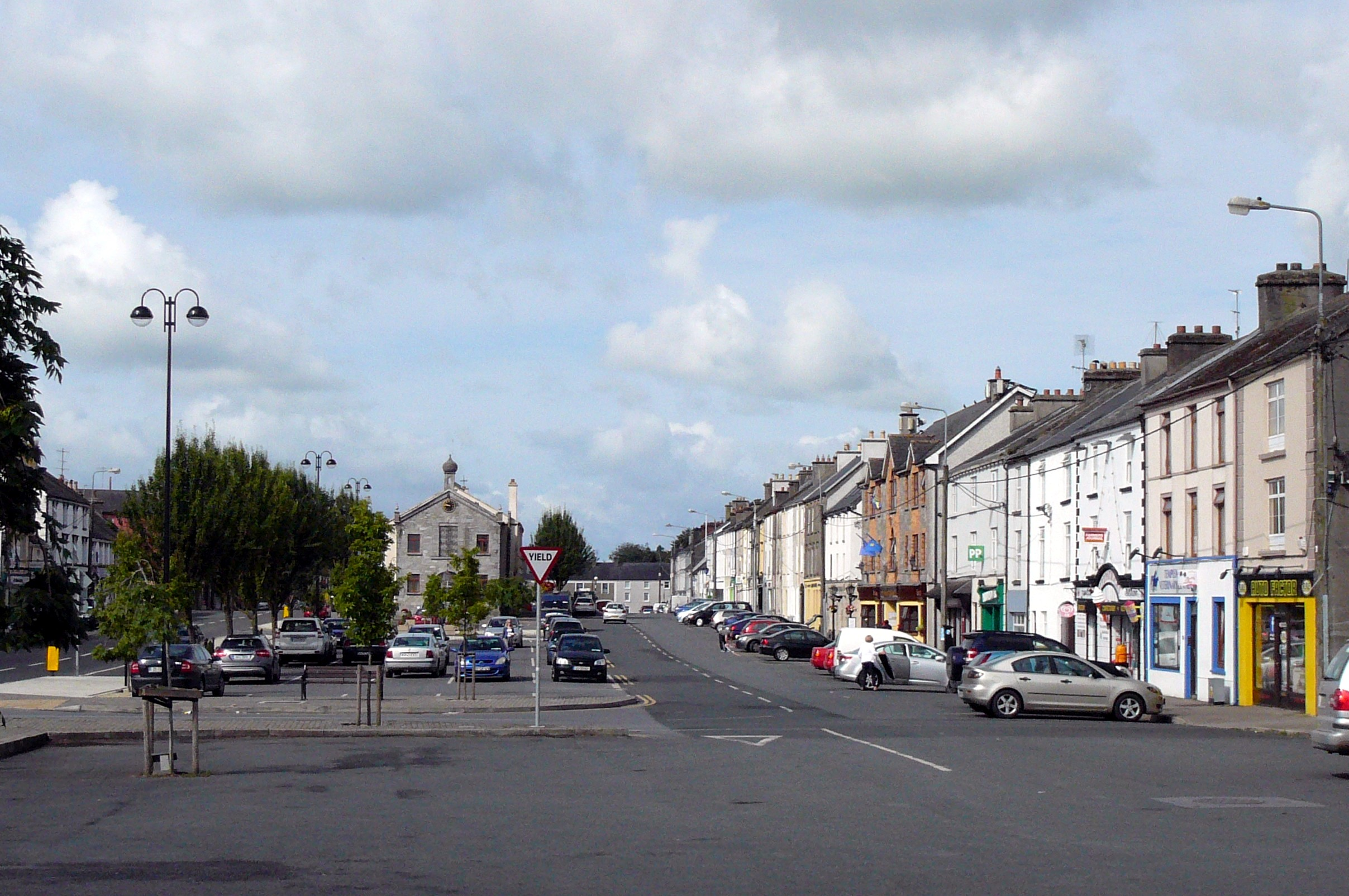 View of Main Street, Templemore, Co Tipperary, Ireland with Town Hall in the background. Image shows the residential south-west side of the main street, traffic running on a parallel street to the left.